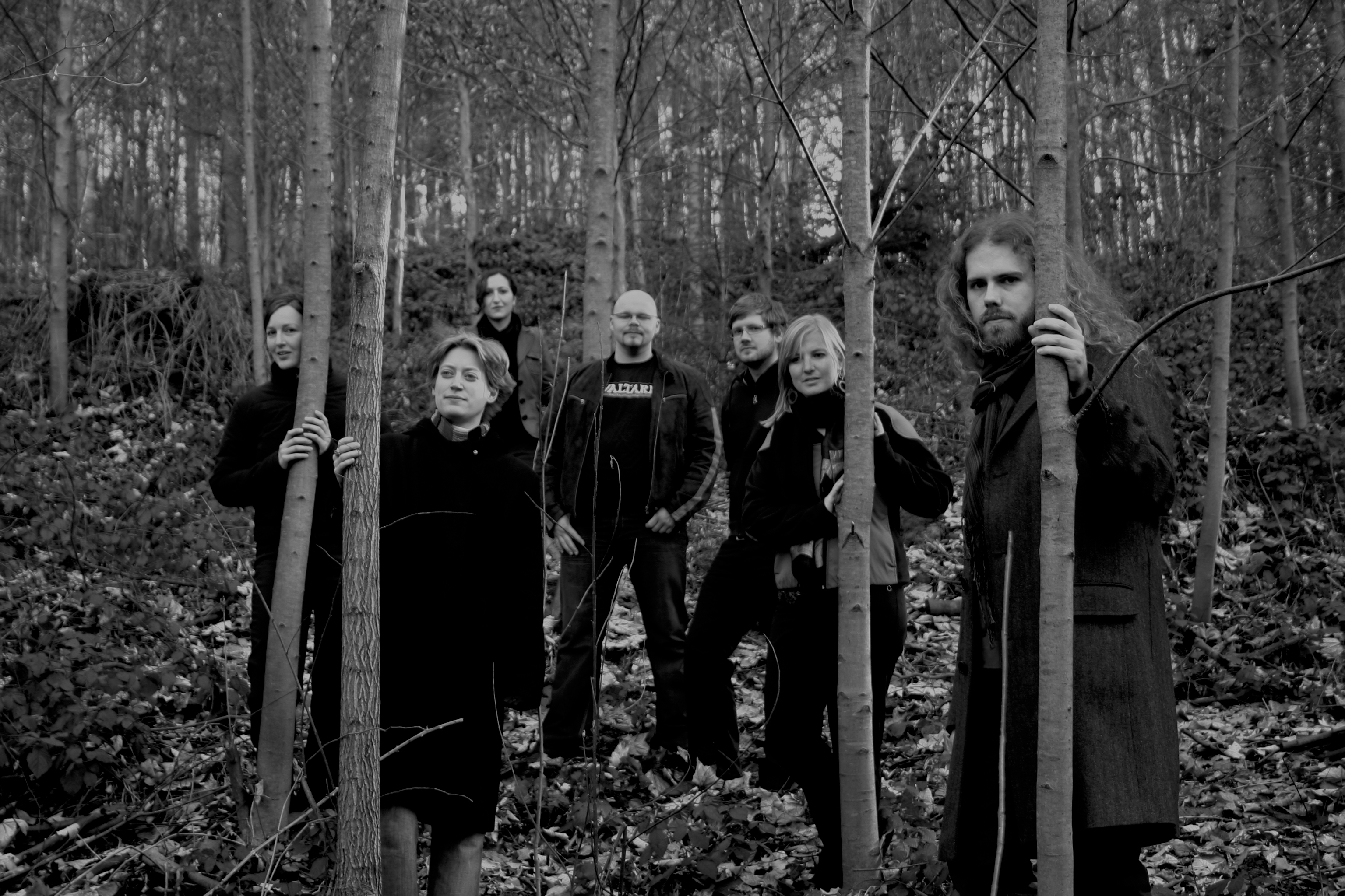 Band photo of Nucleus Torn, a Swiss avantgarde/alternative metal band